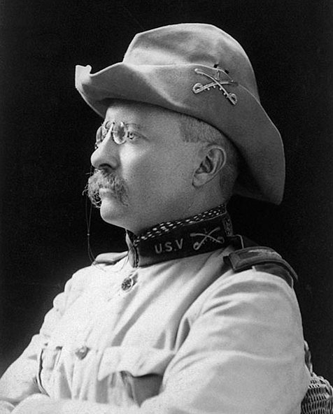 Portrait photo of Theodore Roosevelt